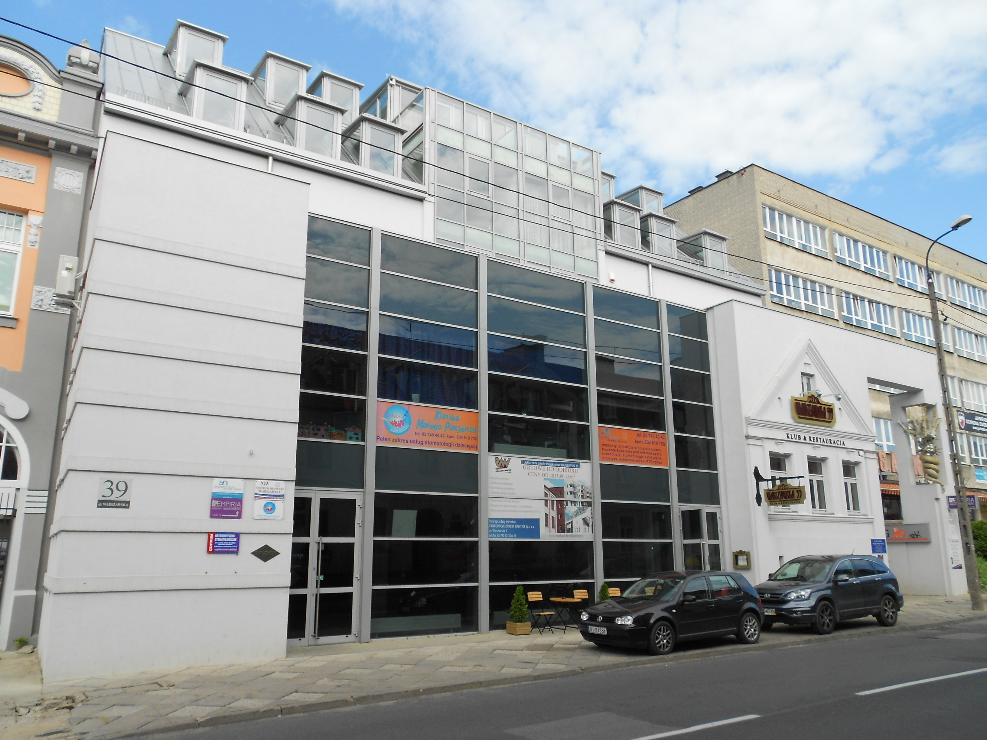 Building of former Fajwel Janowski's Tobacco Factory at Warszawska 39 street in Białystok